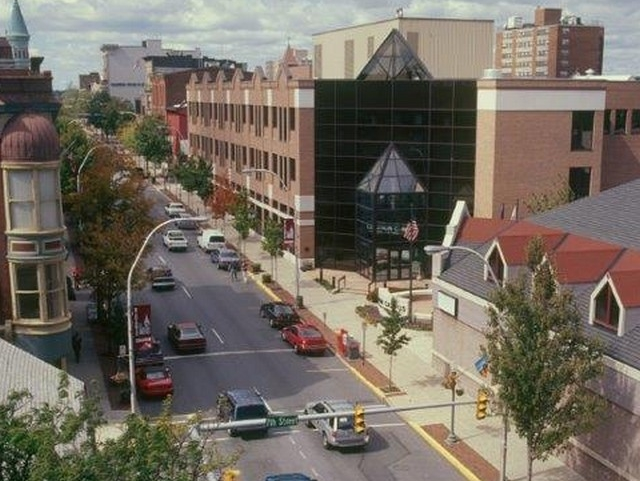 Cumberland Street View Image